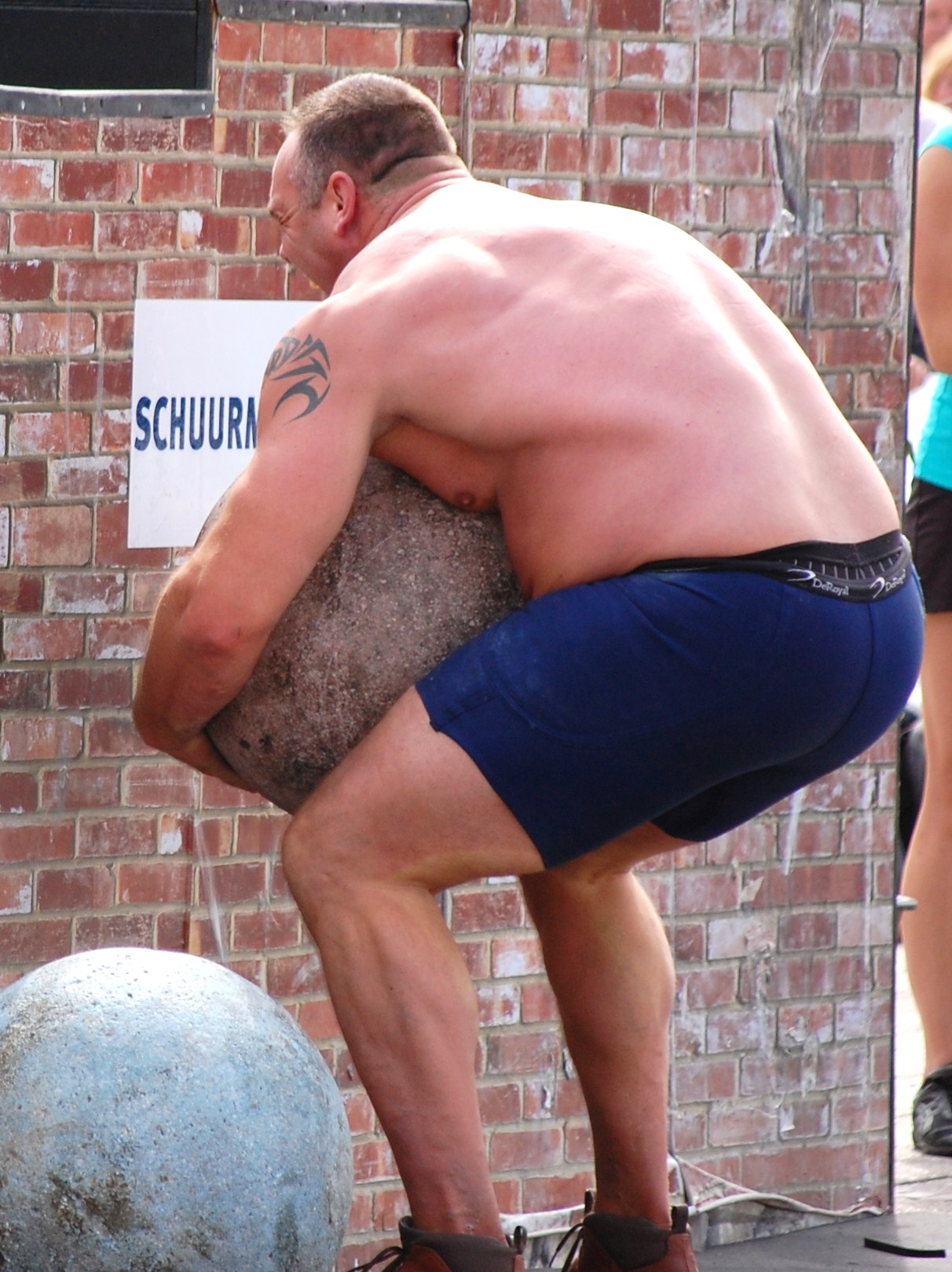 Richard van der Linden - a strength athlete from the Netherlands.